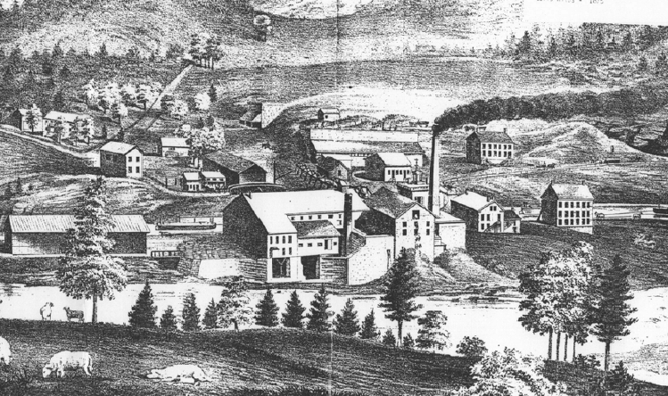 A view of the Lawrenceville cement works in Rosendale, NY, USA, from the south